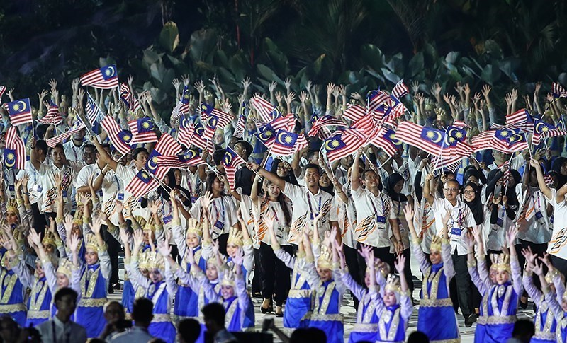 2018 Asian Games opening ceremony